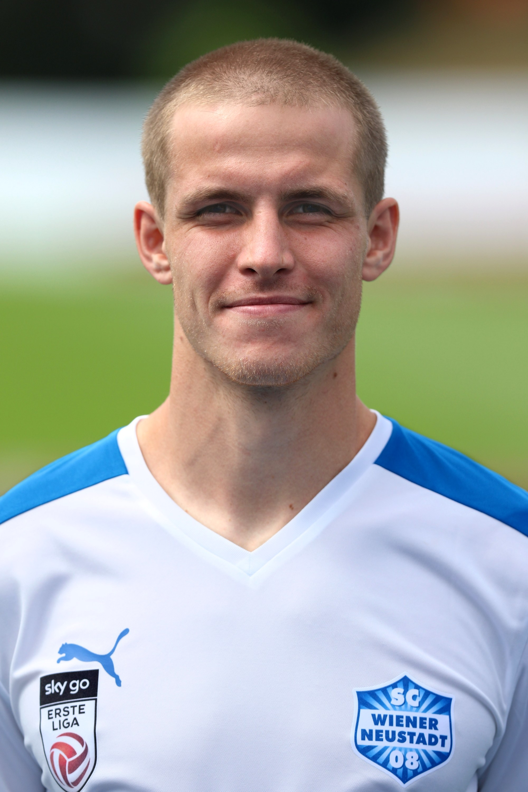 SC Wiener Neustadt squad presentation summer 2017. – The photo shows Stefan Hager.